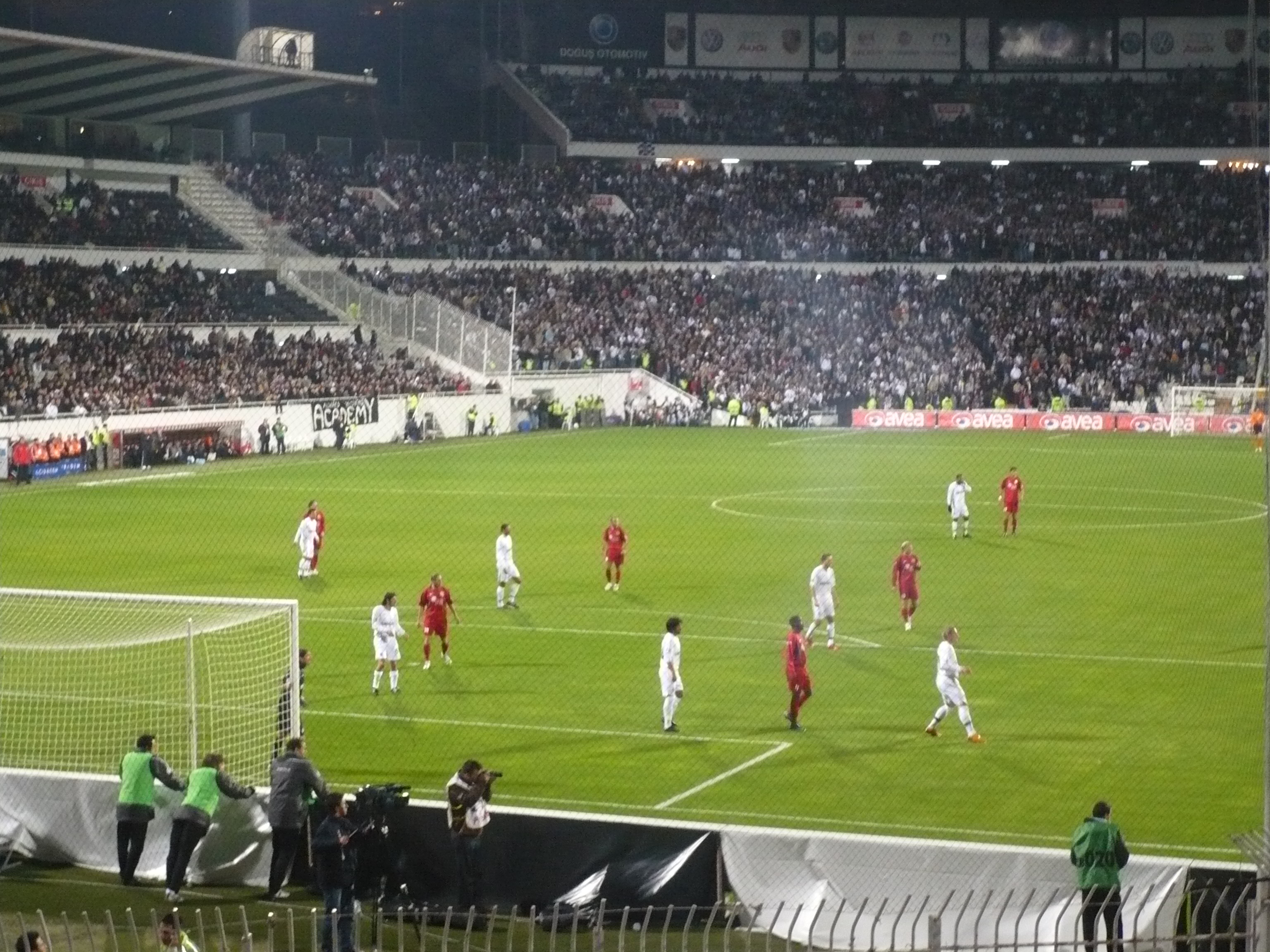 Turkcell Premier League Day 12 Beşiktaş-Eskişehirspor match İstanbul İnönü stadium